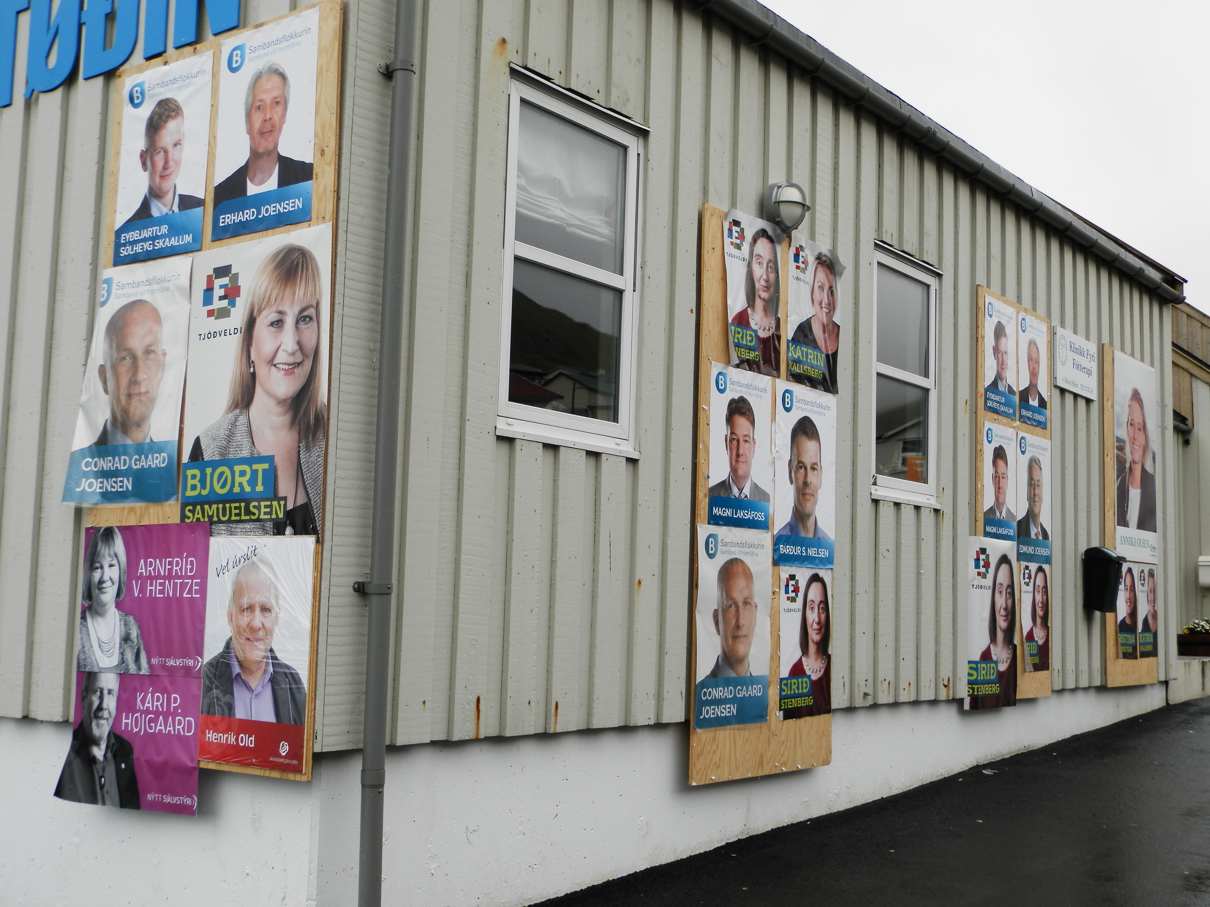 Election posters in Vágur, Faroe Islands four days before the parliamentary election 1 September 2015.